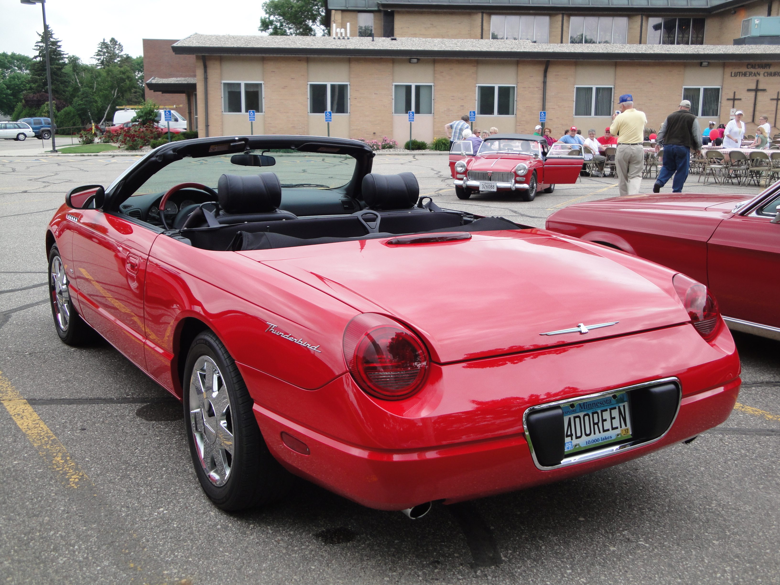 Calvary Lutheran Drive In Night